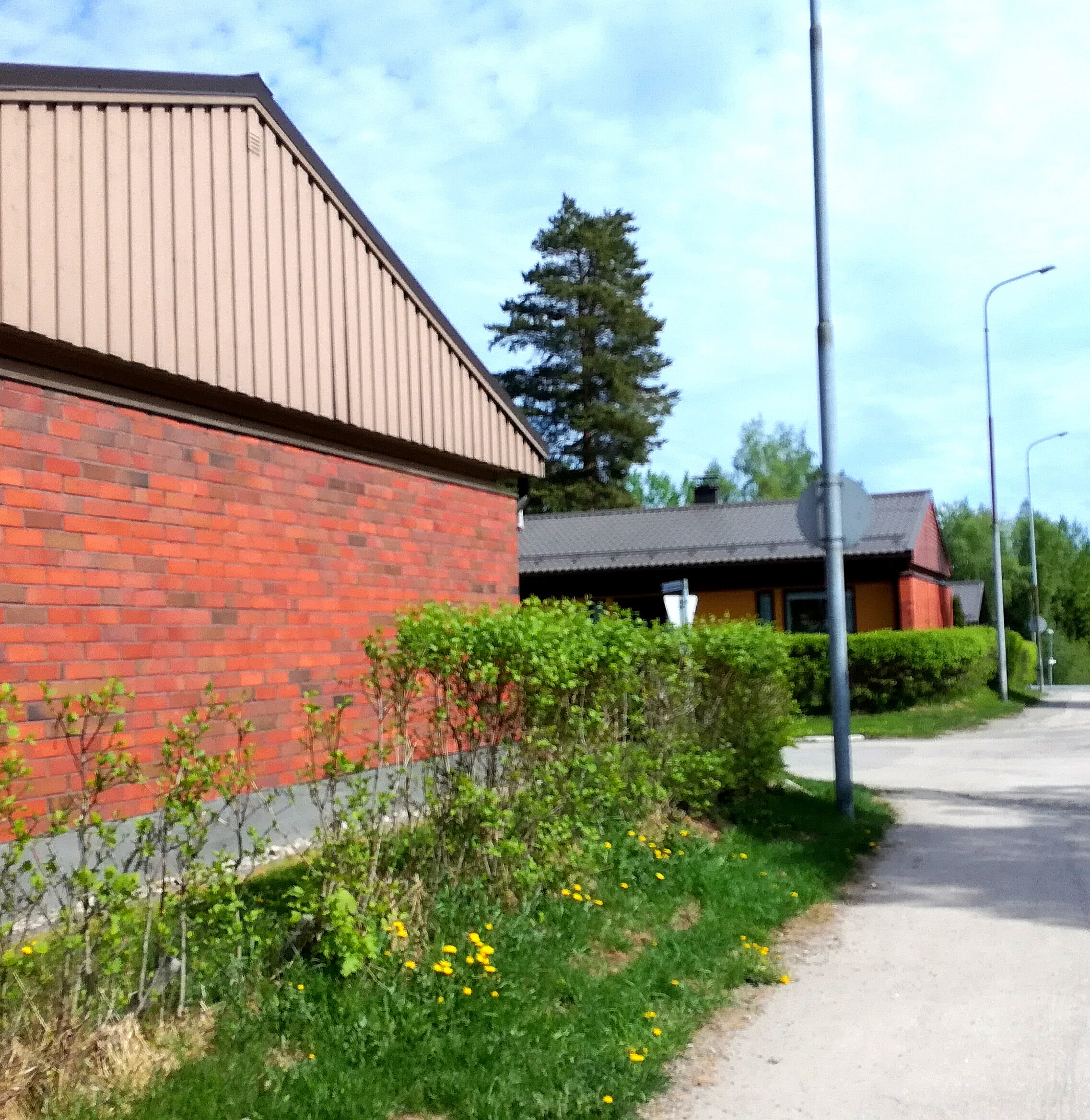 Houses built in the 1970s in Kaakkolampi, Huhtasuo, Jyväskylä